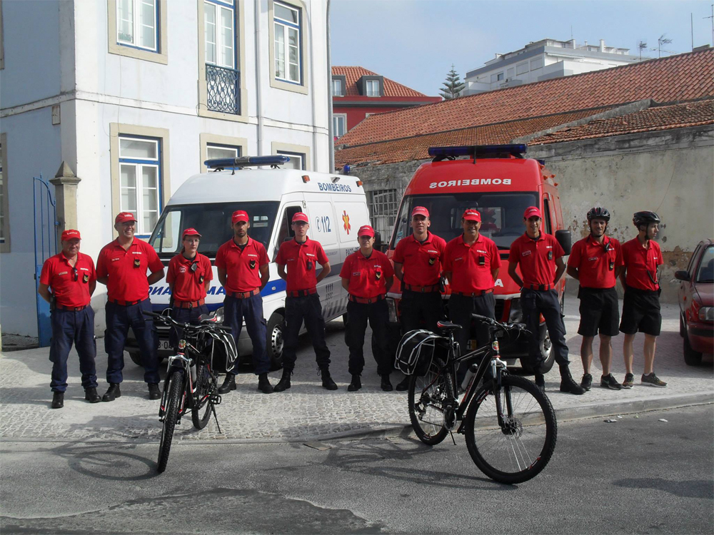 BVPA-BikeRescuePatrol